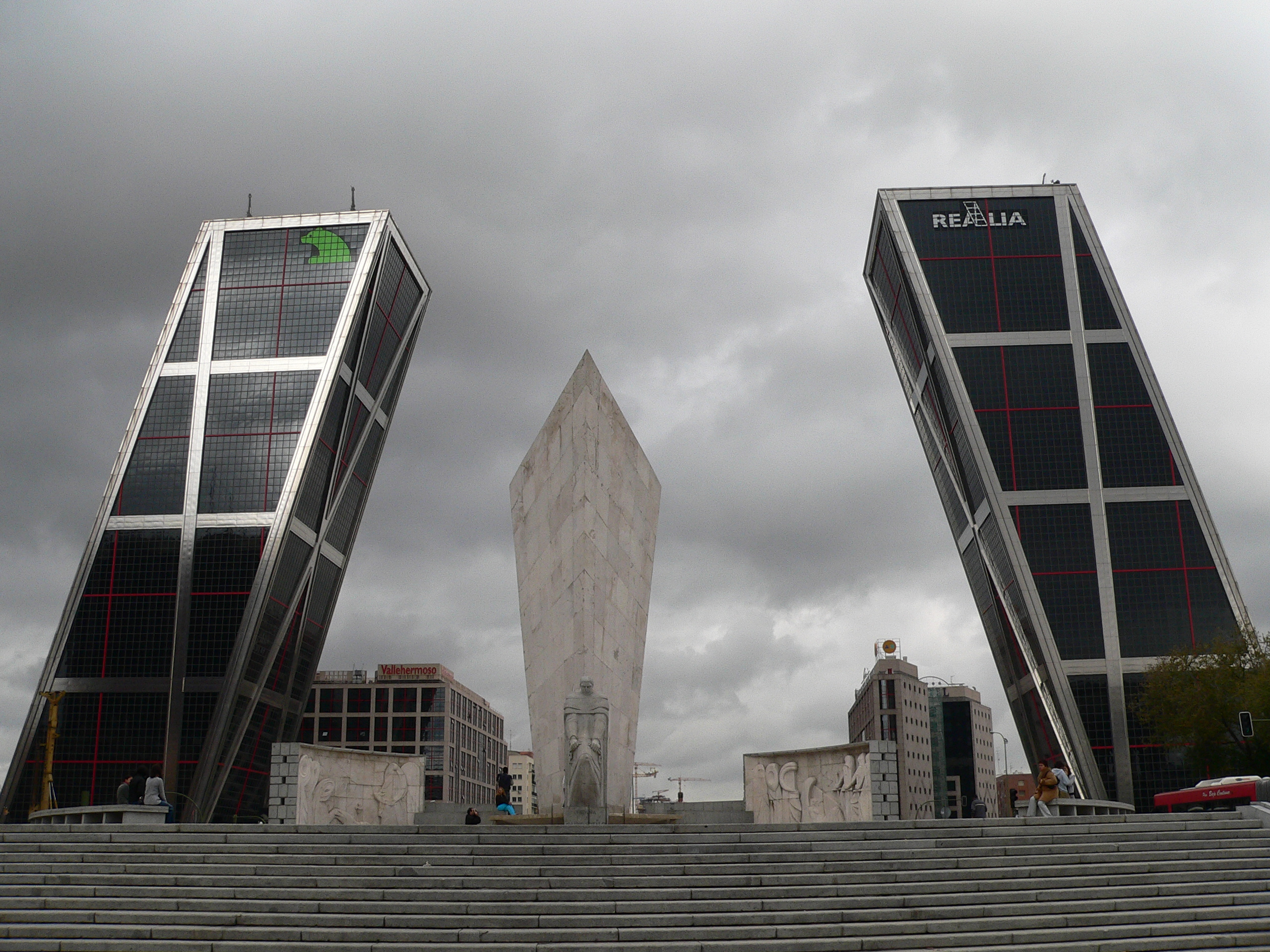 Description: Kio Towers Place : Plaza de Castilla City : Madrid Country : Spain Photographer: © Manuel González Olaechea y Franco Shot date : November, 1st., 2005 Monument to José Calvo Sotelo in the foreground.